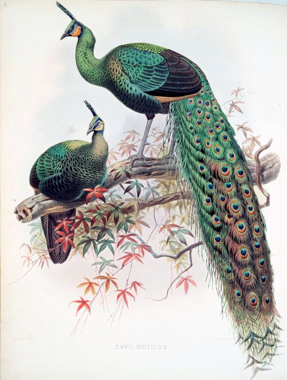 Green Peafowl Pavo muticus